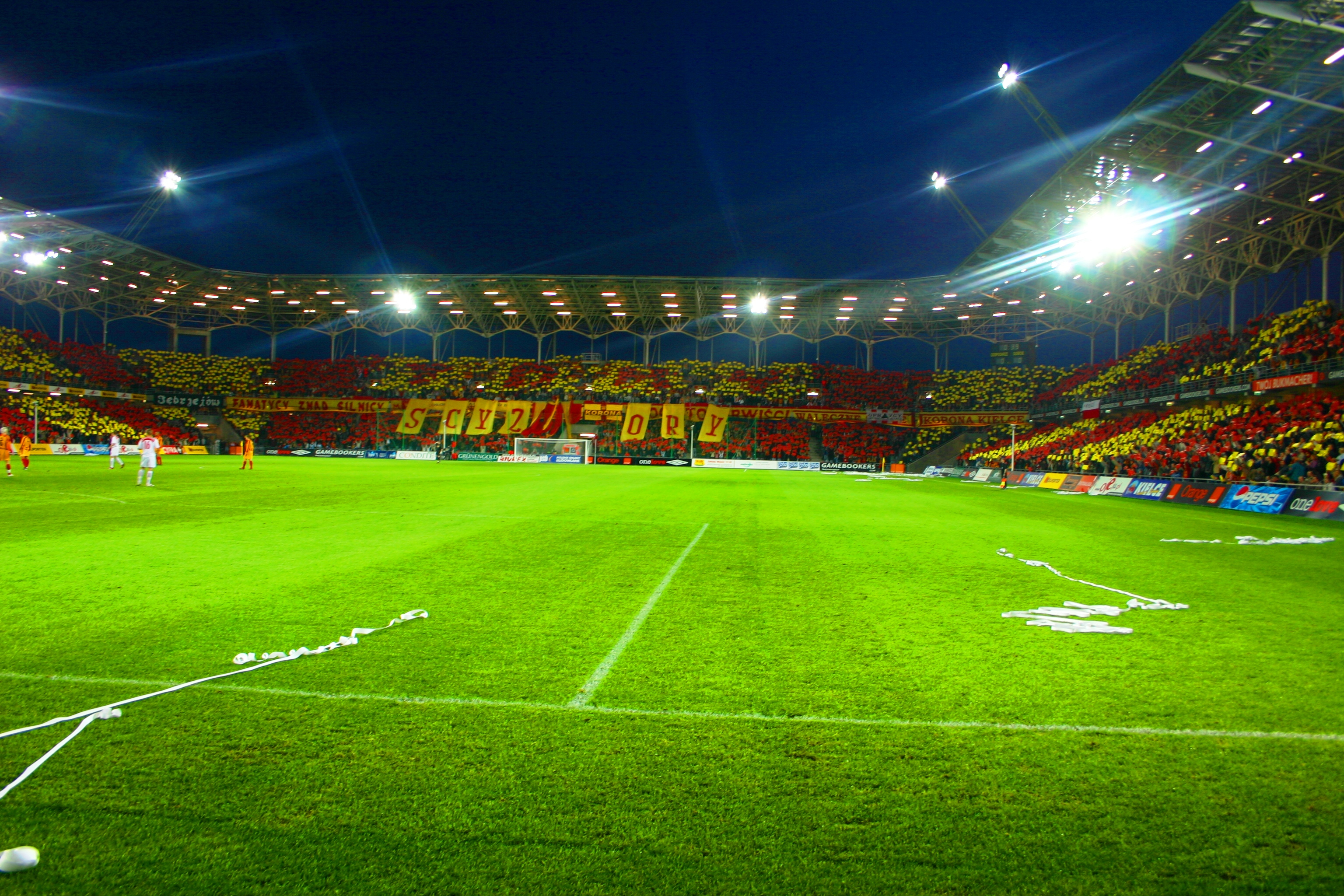 Kielce City Stadium